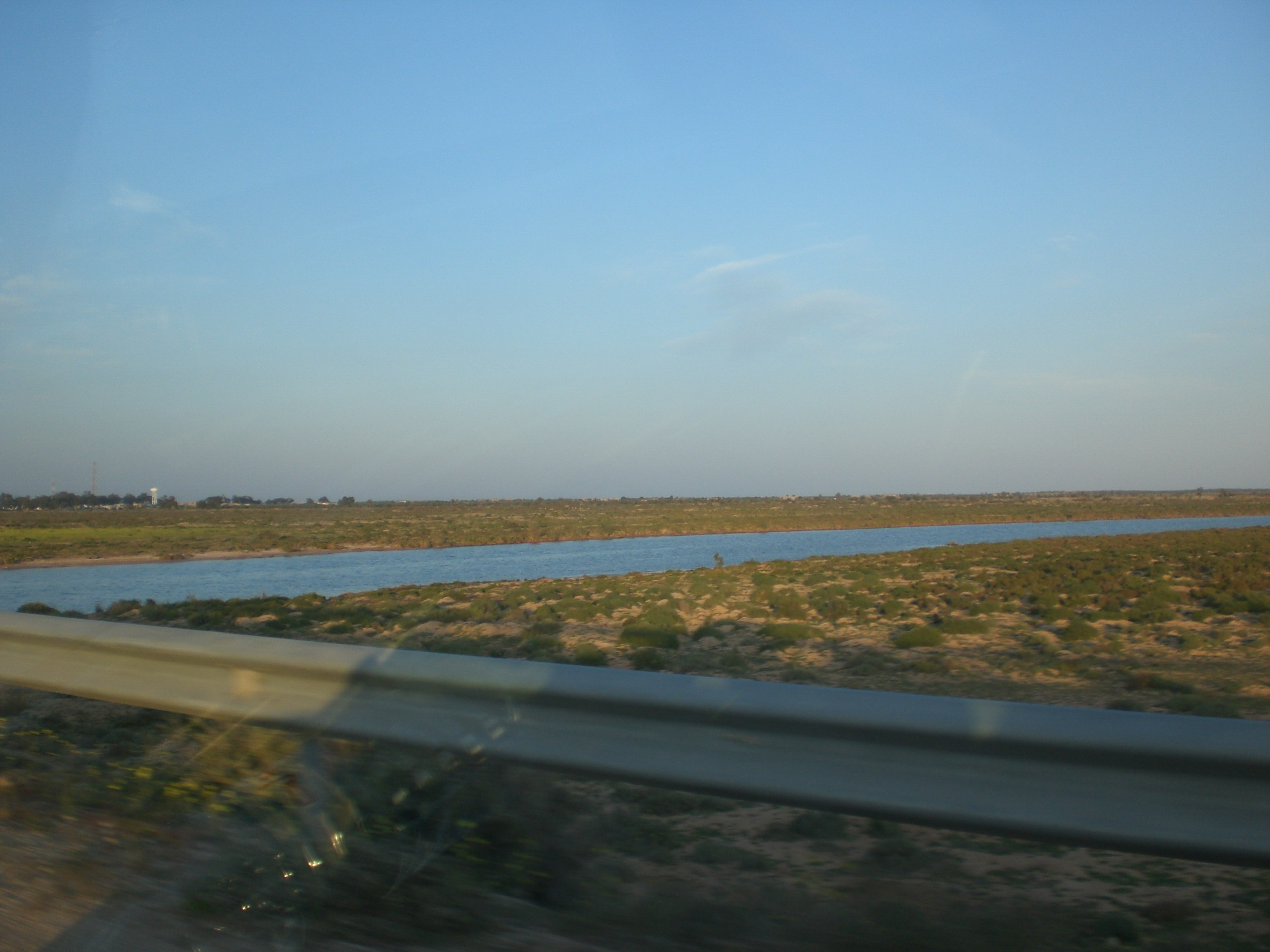 A Tunisian oued, oued oudrane